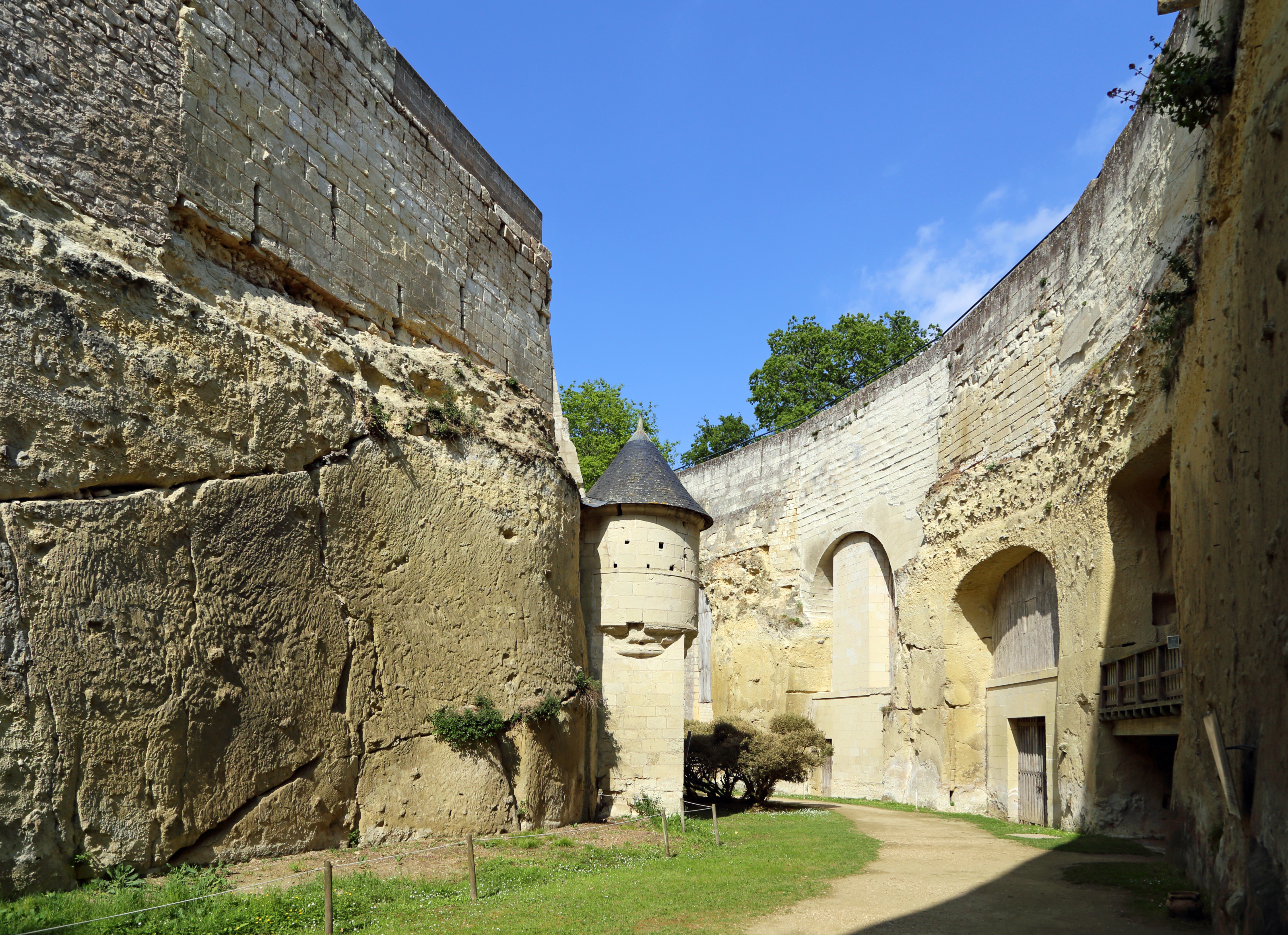 Brézé Castle (département Maine-et-Loire, France): dry moat